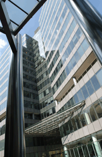 FSA's headquarters, 25 The North Colonnade, Canary Wharf, London, E14 5HS